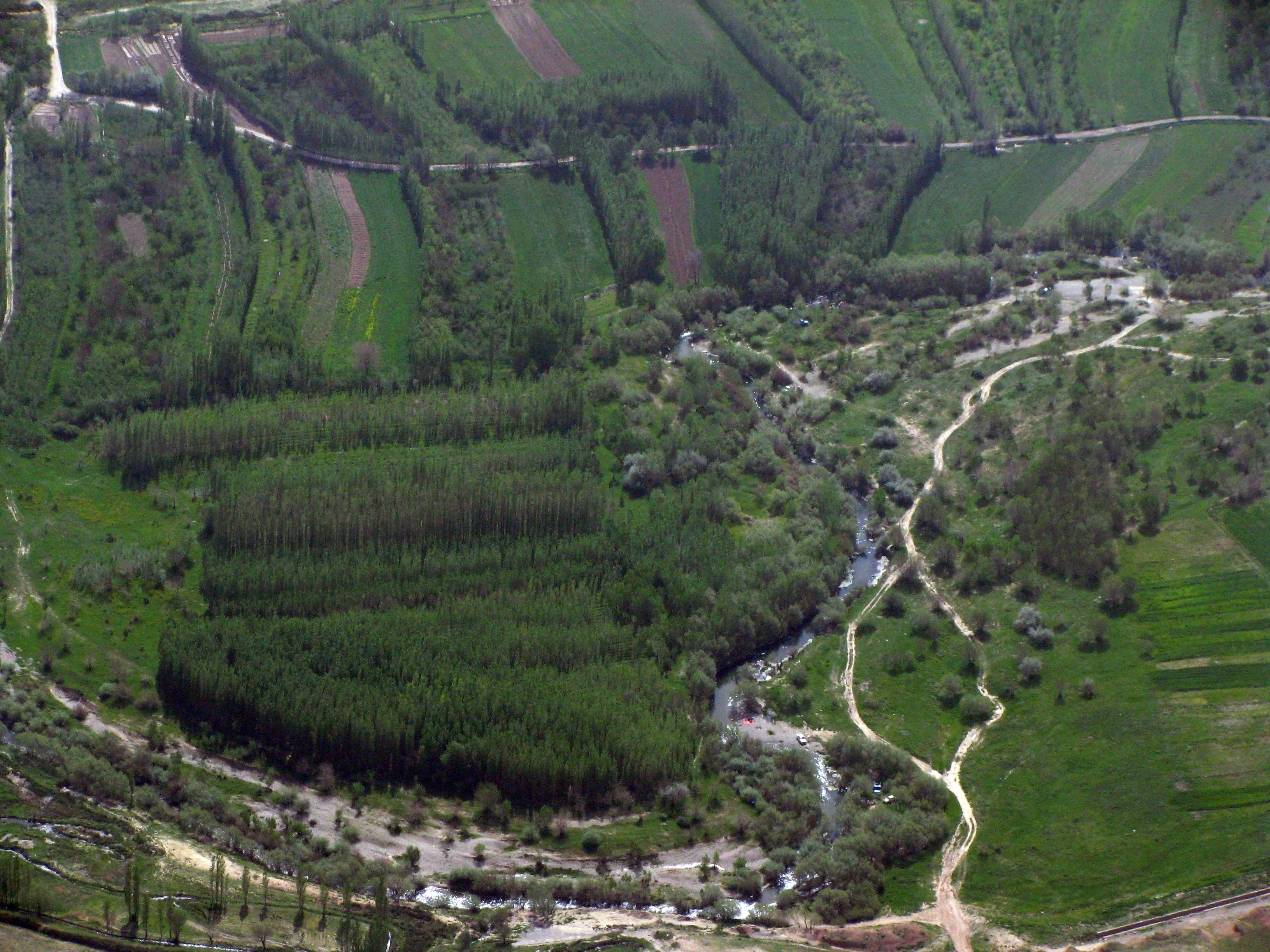 Natur of Eskun Village from top of Lajvar mount.